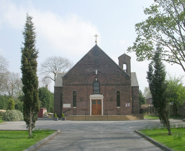 St Ignatius Catholic Church - Storrs Hill Road